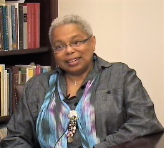 Q&A with Experts: Frances Smith Foster Twenty-five years ago, Emory University founded a program in law and religion as part of its mission to build an interdisciplinary university and to increase understanding of the fundamental role religion has played in shaping law, politics, and society. As we celebrate the next 25 years of our Center, we anticipate and articulate the hardest questions of law and religion that will face us as believers and citizens, as scholars and practitioners, as persons and peoples. Renowned leaders in law and religion address these issues and more in video and text interviews